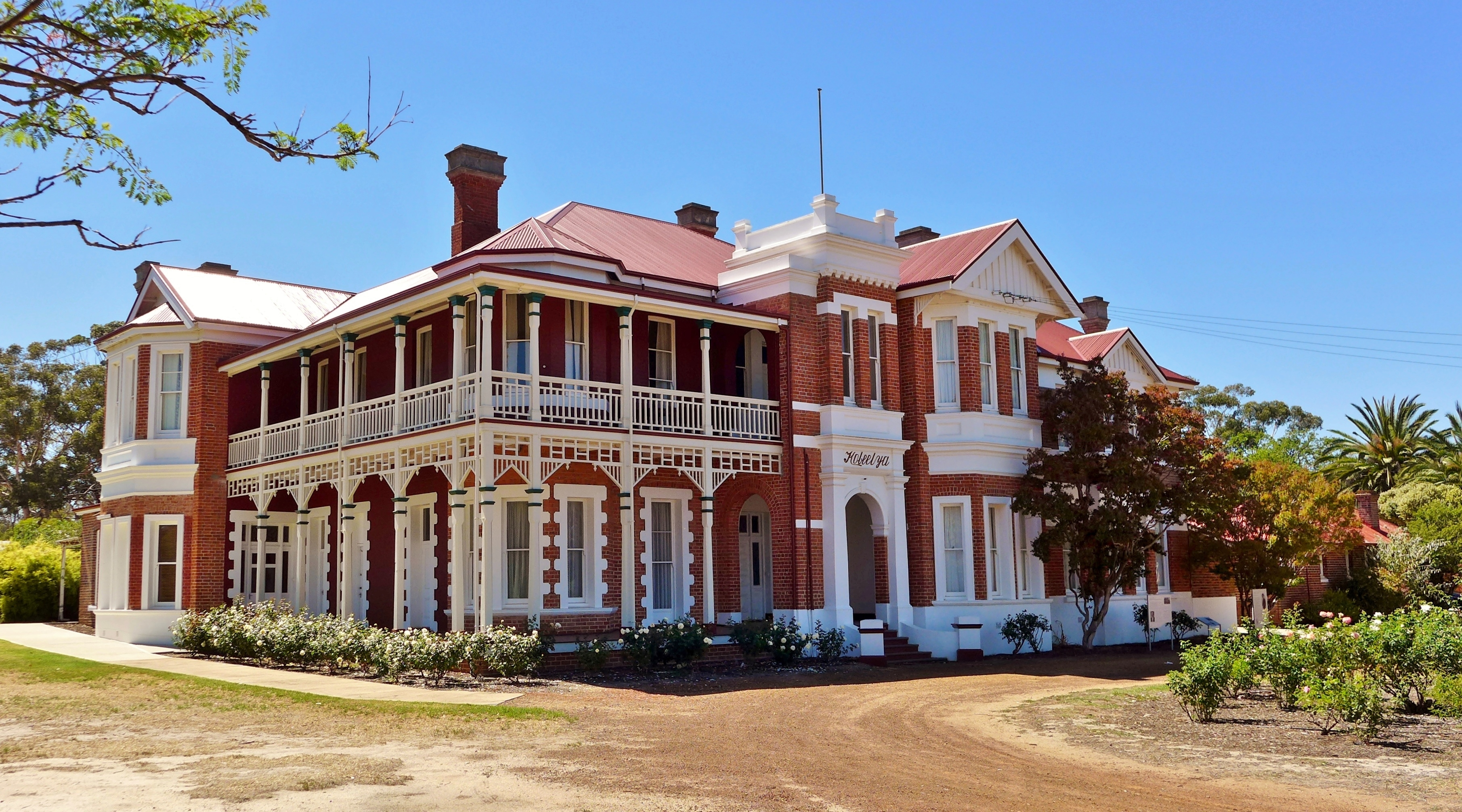 View of Kobeelya, a former mansion and girls school, and now a conference centre, on the eastern outskirts of Katanning, Western Australia